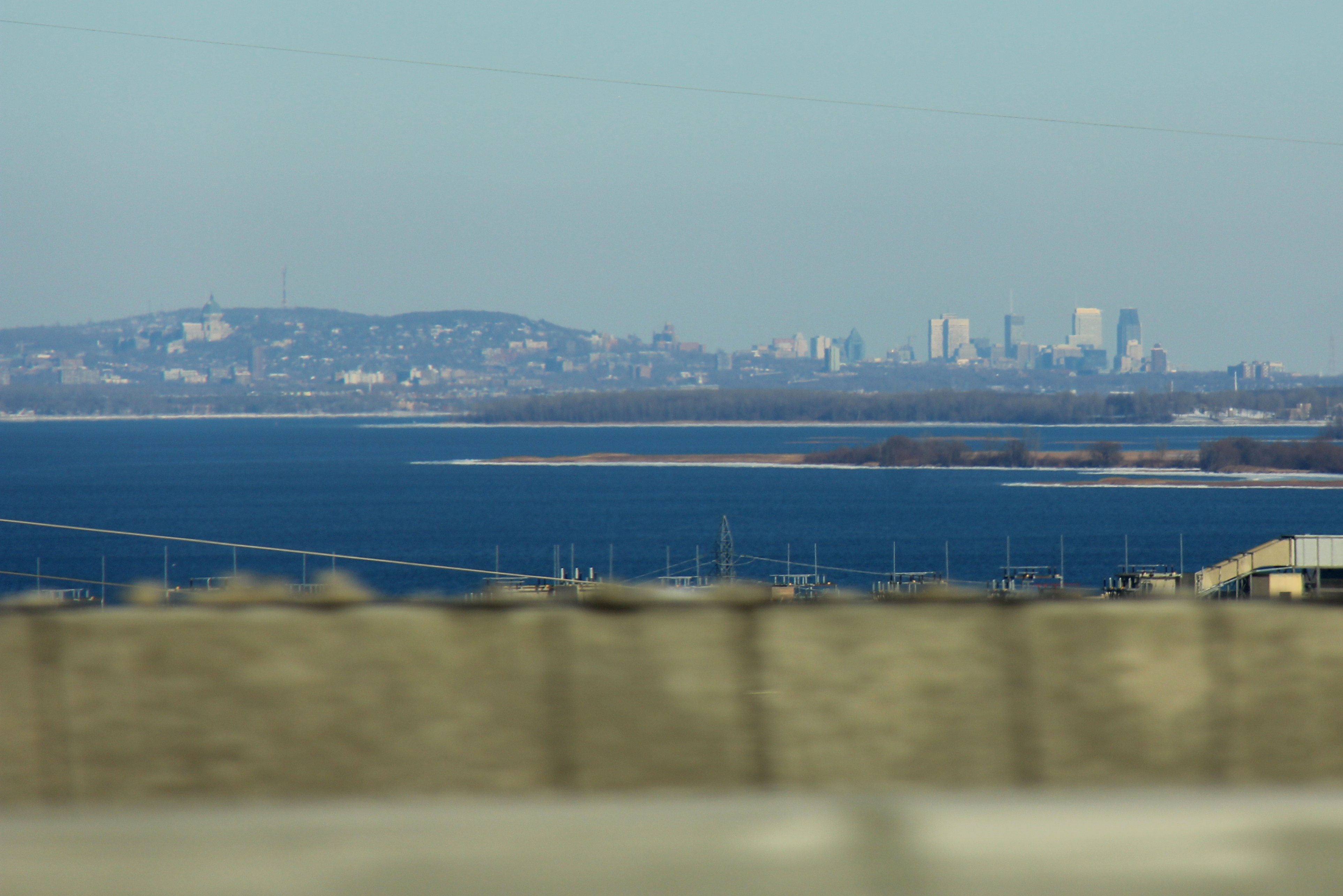 The city of Montreal can be seen on a clear day from the Beauharnois Canal Bridge on Quebec Autoroute 30.